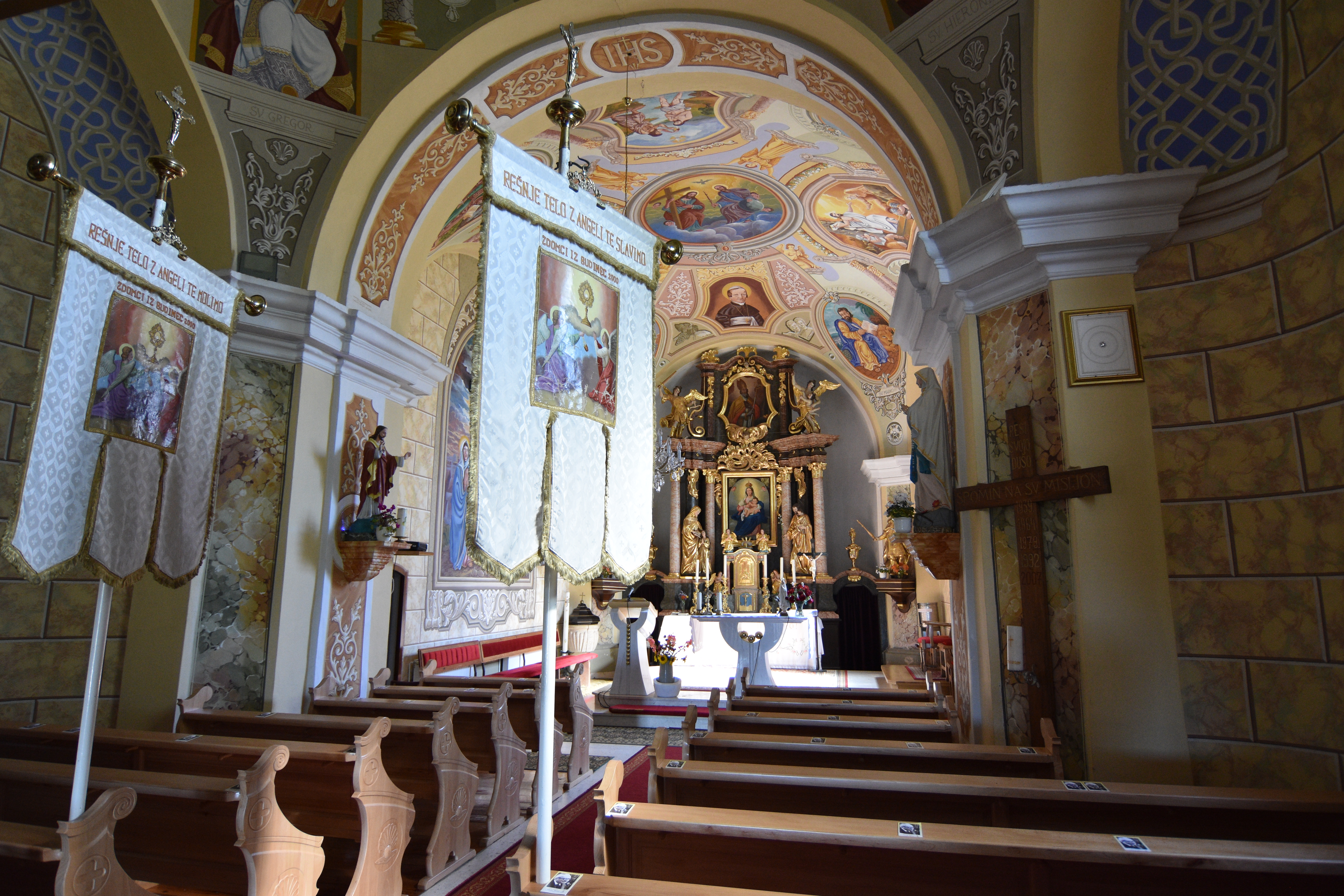 Church Cerkev svetega Nikolaja, Dolenci, Šalovci Interior